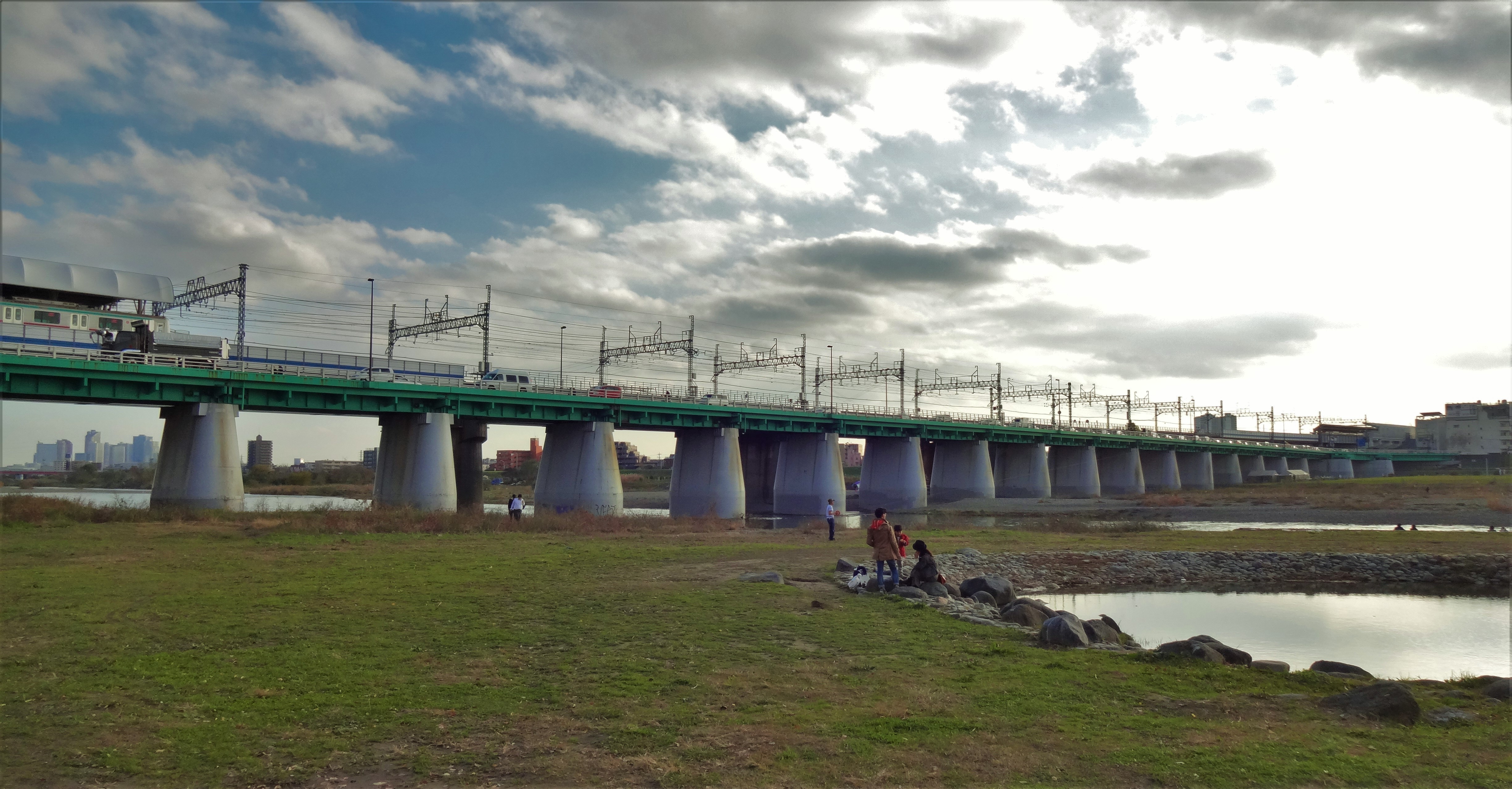 Train bridge above the Tama River separating Tokyo and Yokohama (Japan)